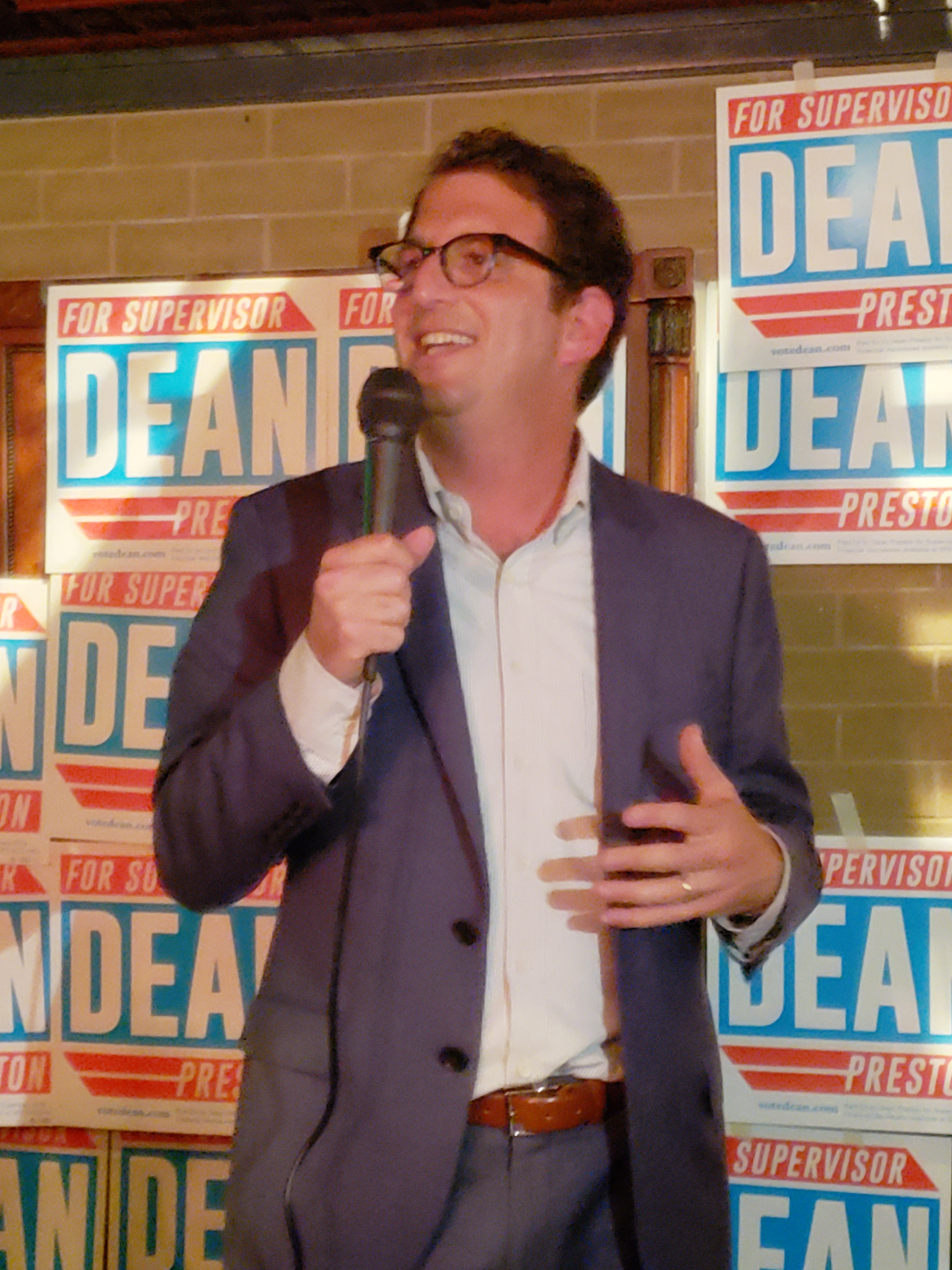 Dean Preston at an election night campaign event at Noir Lounge in San Francisco, California, United States